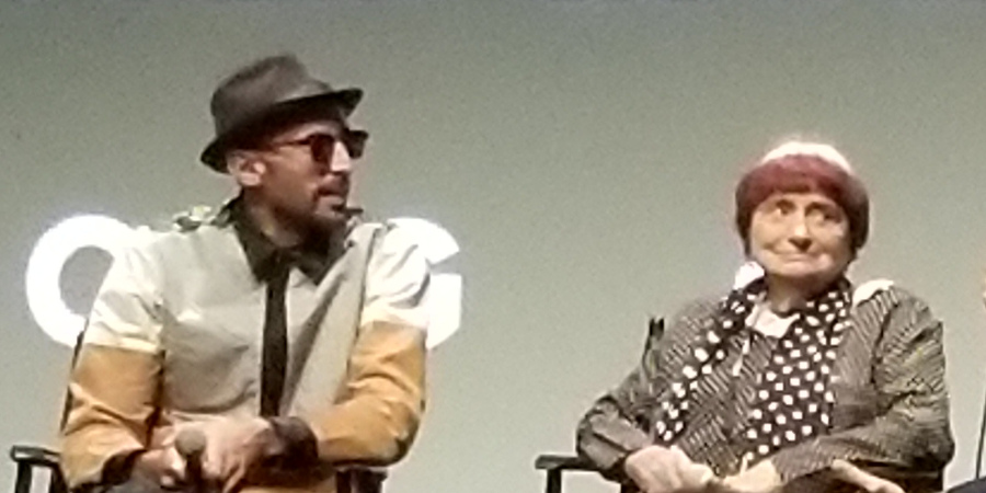 Agnès Varda and JR at a Q&A for Faces Places at the Lincoln Center for the Performing Arts in New York City, New York, United States